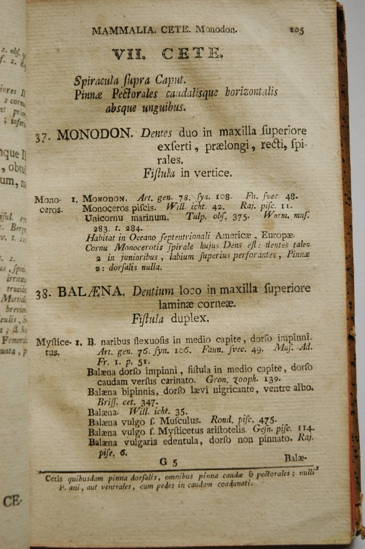 This is a picture of the page 105 from the Systema Naturae by Carolus Linnaeus, 13th Edition (Vienna, 1767). Taken by User:Alexei Kouprianov with a digital camera.